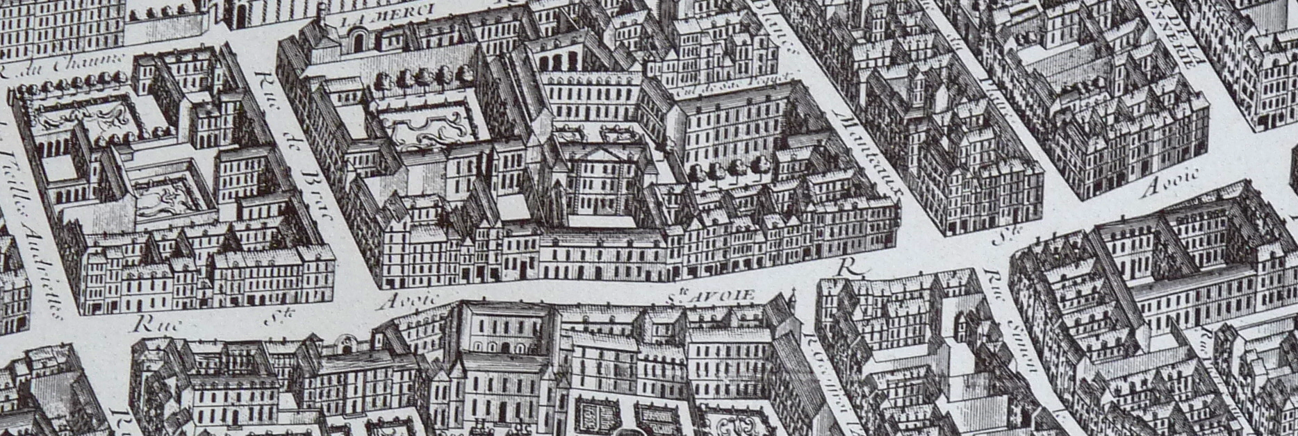 Rue Sainte-Avoie (now Rue du Temple) in Paris on the plan Turgot